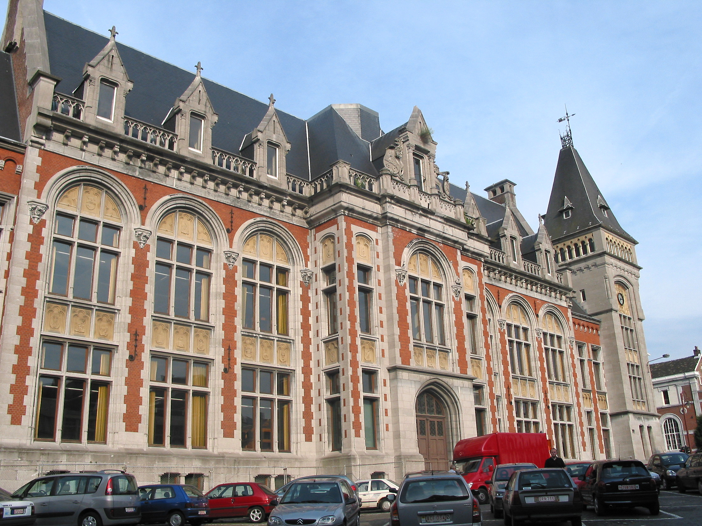 Verviers (Belgium), the law court (1830/1853) - Architects: Dumont (main building)/Remouchamps (added wing - 1896).